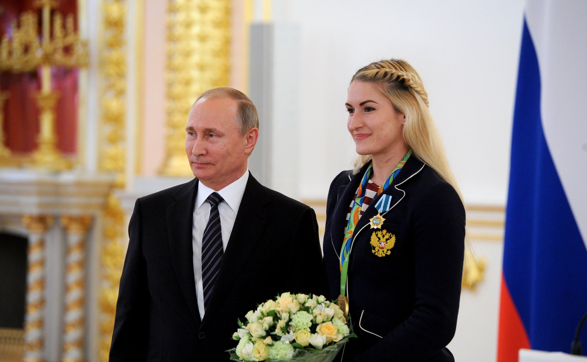 Vladimir Putin presented state awards to the Russian athletes who won gold medals at the 2016 Olympic Games in Rio de Janeiro (Brazil).